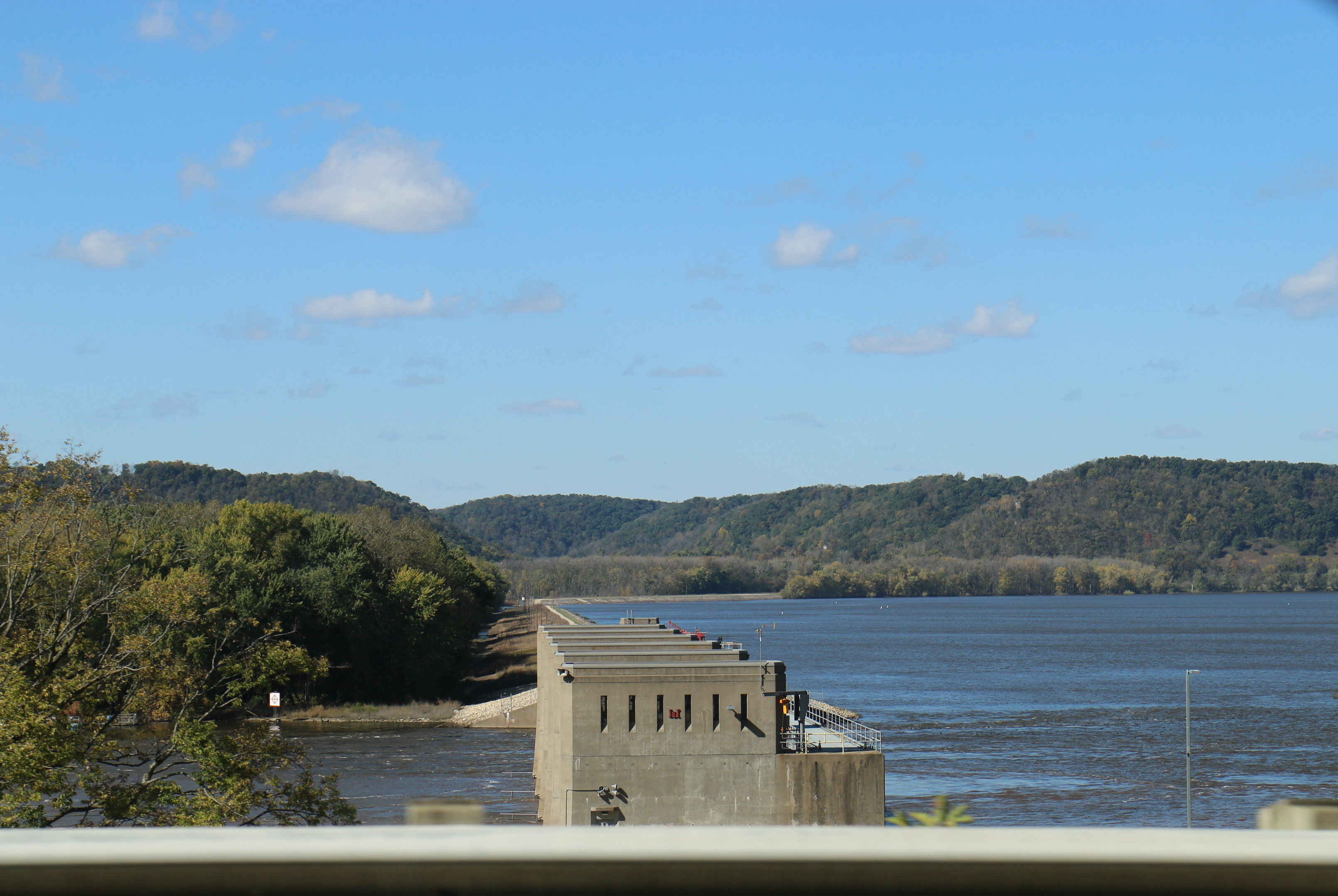 Mississippi River Lock and Dam from Wisconsin Highway 35 / Great River Road